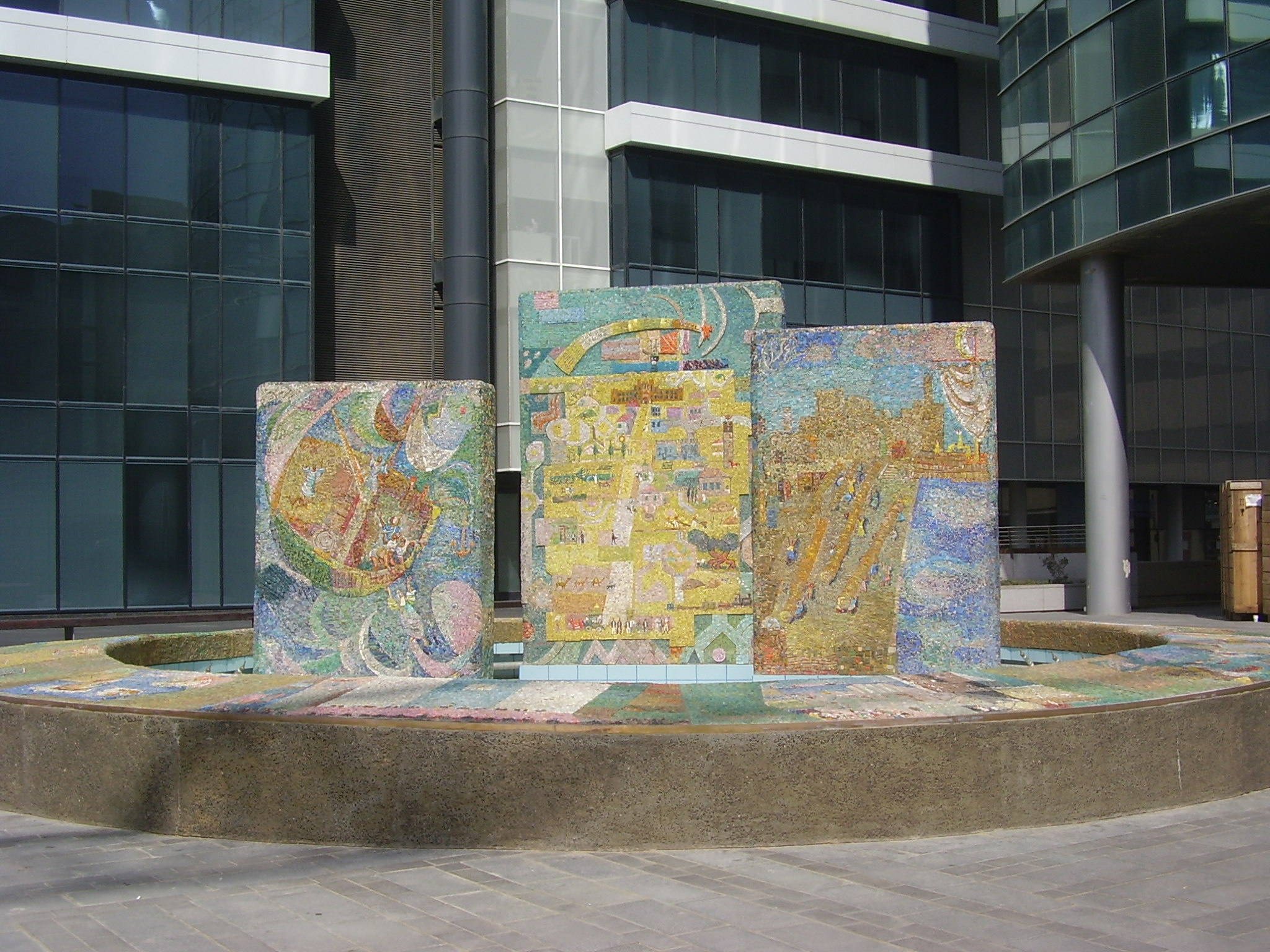 Nahum Gutman's mosaic in Tel Aviv